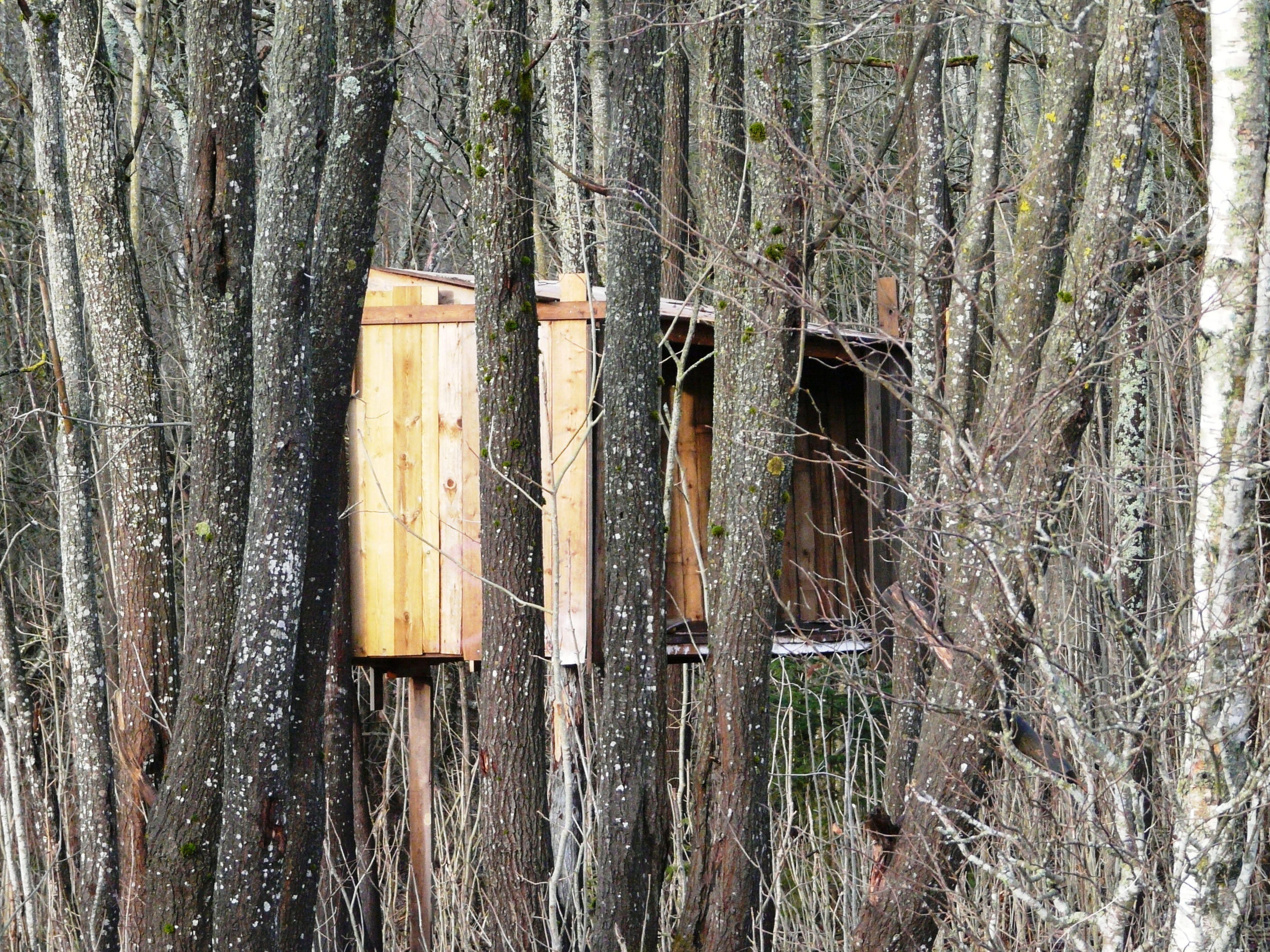 Tree hut, Hestejordene, Lillomarka, Oslo